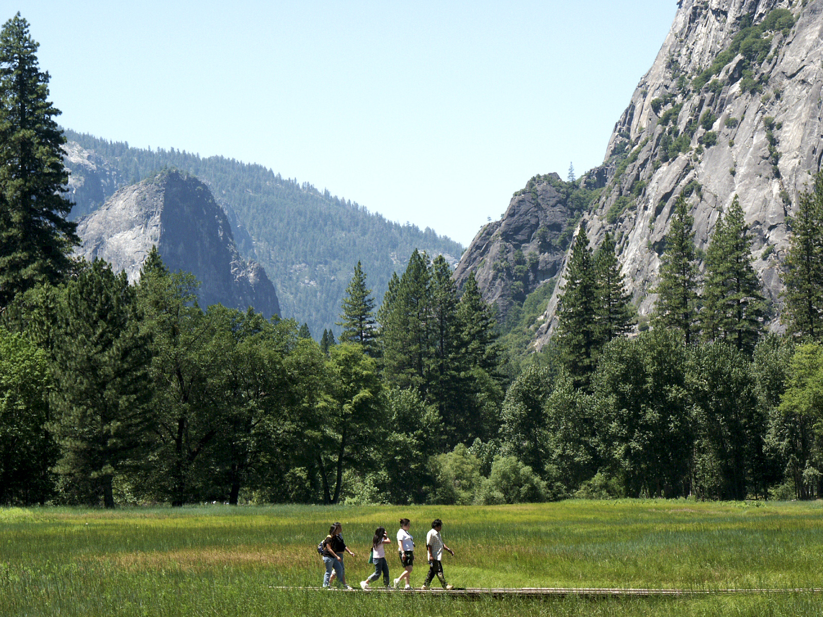 A family of tourists wander across a clearing in Yosemite National Park.